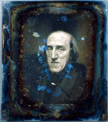 Daguerrotype portrait of Belgian physicist Joseph Plateau (1801-1883)